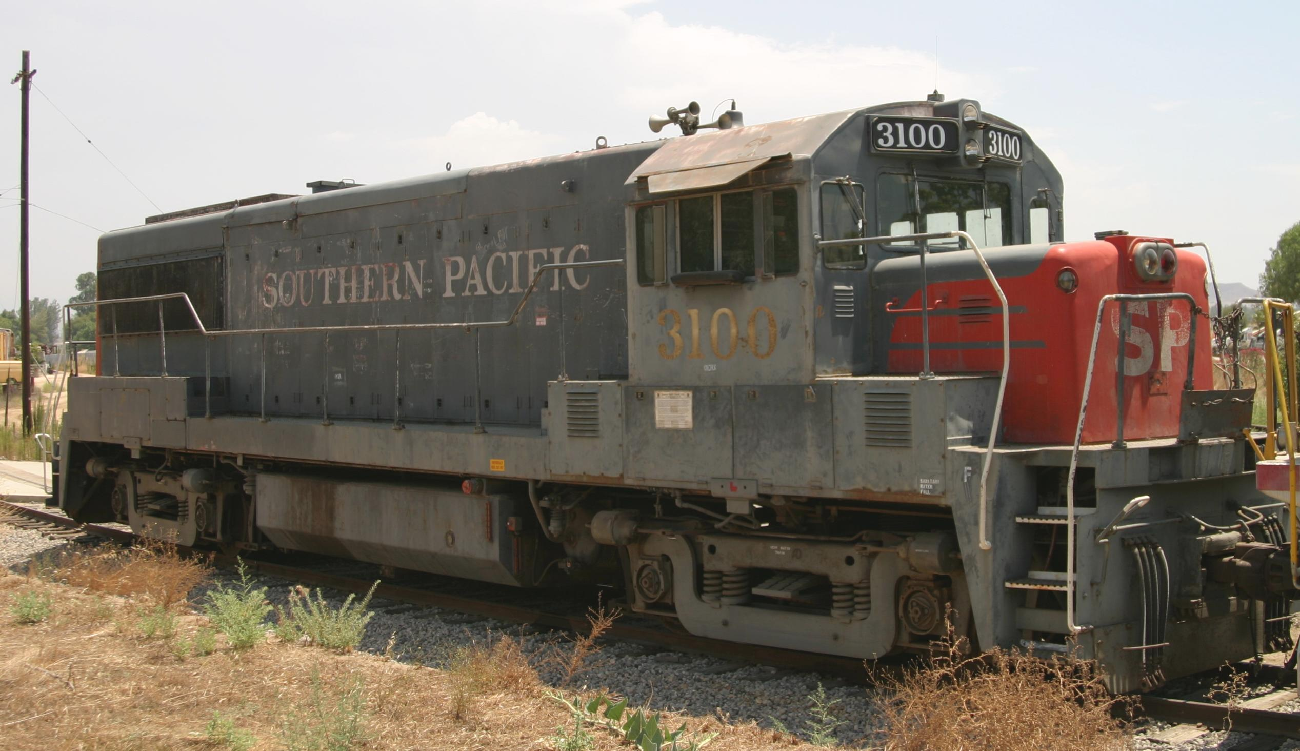 GE U25B locomotive at the Orange Empire Railway Museum in Perris, California. Taken 8/4/05 by User:Pretzelpaws with a Canon EOS-10D camera. Cropped and brightened 8/24/05 using the GIMP.